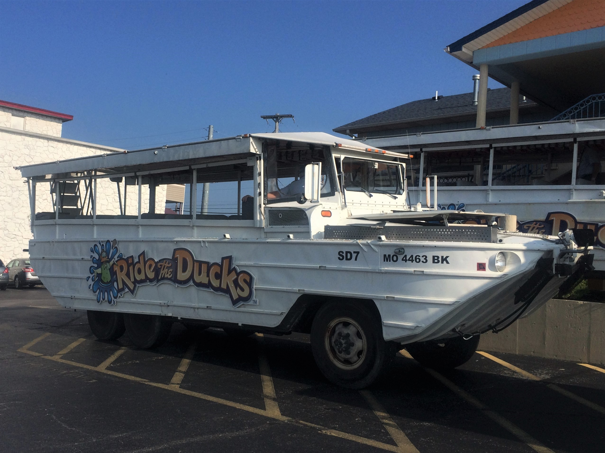 Table Rock Lake duck boat accident